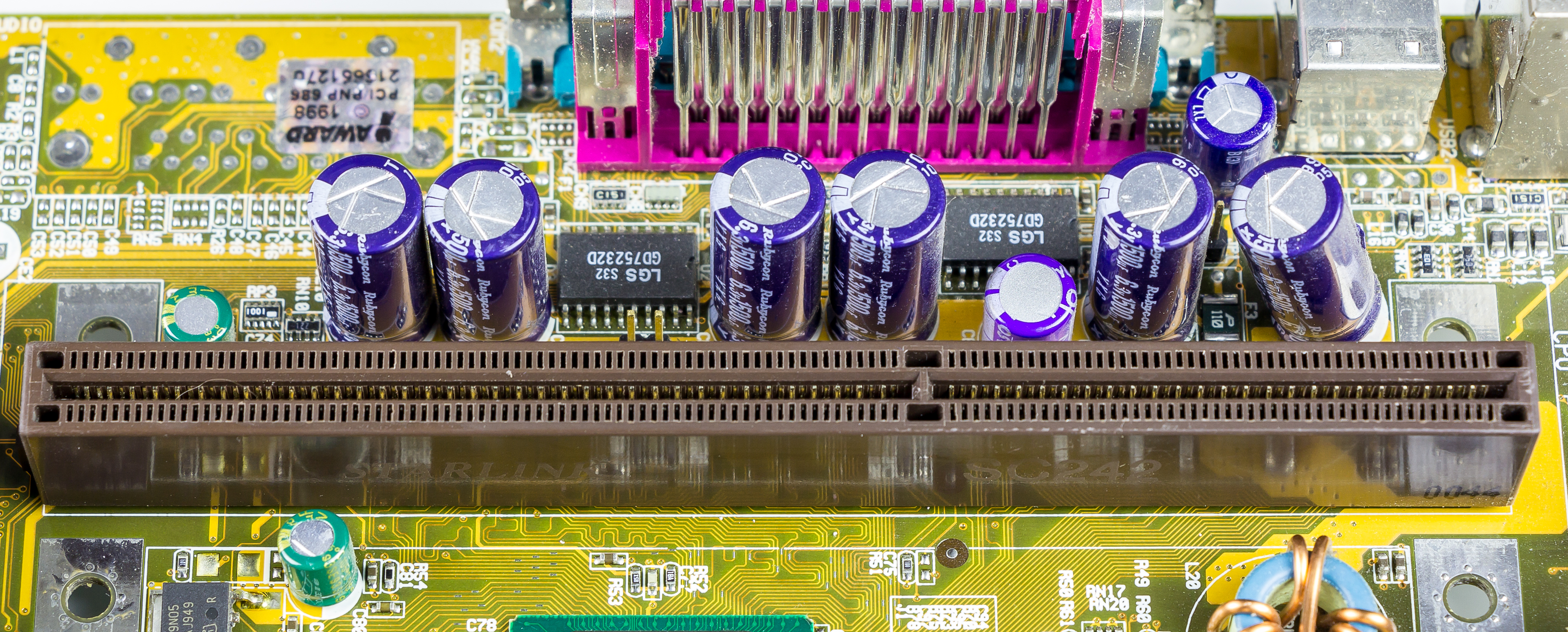 Asus P3C2000 - Slot 1